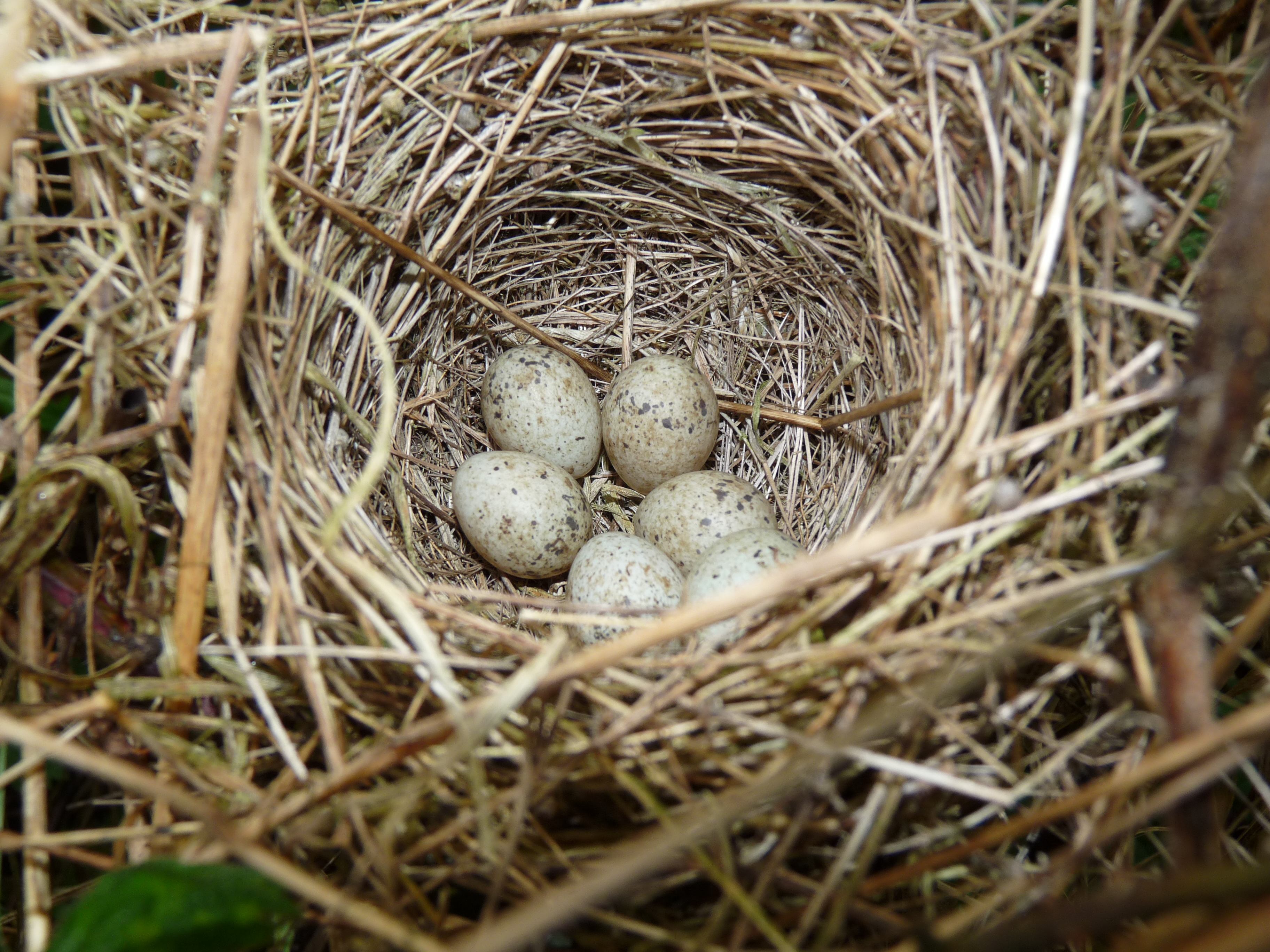 And Another Egg! Its getting a bit full now, probably one more then she will... Latin name Sylvia communis Family Warblers and allies (Sylviidae) Overview ... Where to see them Found over most of the UK. Look in any piece of suitable habitat in summer. When to see them From mid-April to early October What they eat Insects, and berries and fruit in autumn.